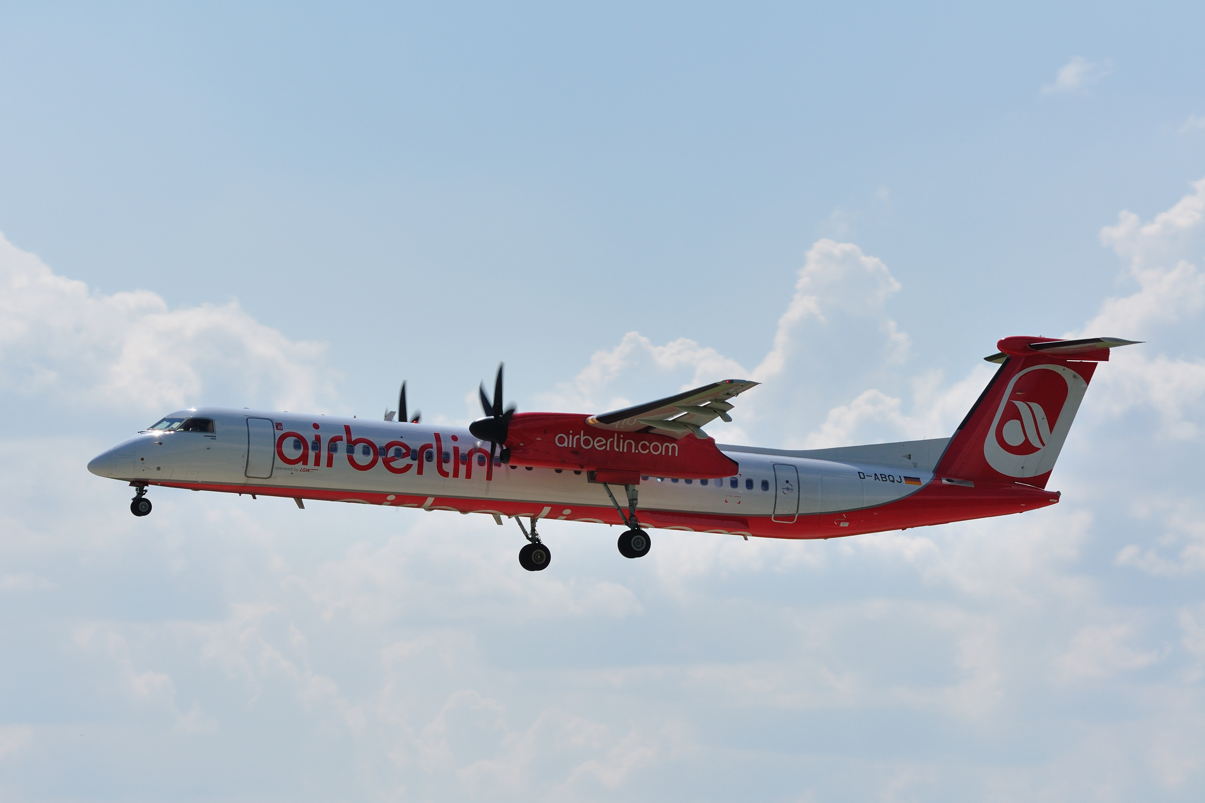 Switzerland, Canton of Zürich, spotting along runway 14 at Zurich International Airport